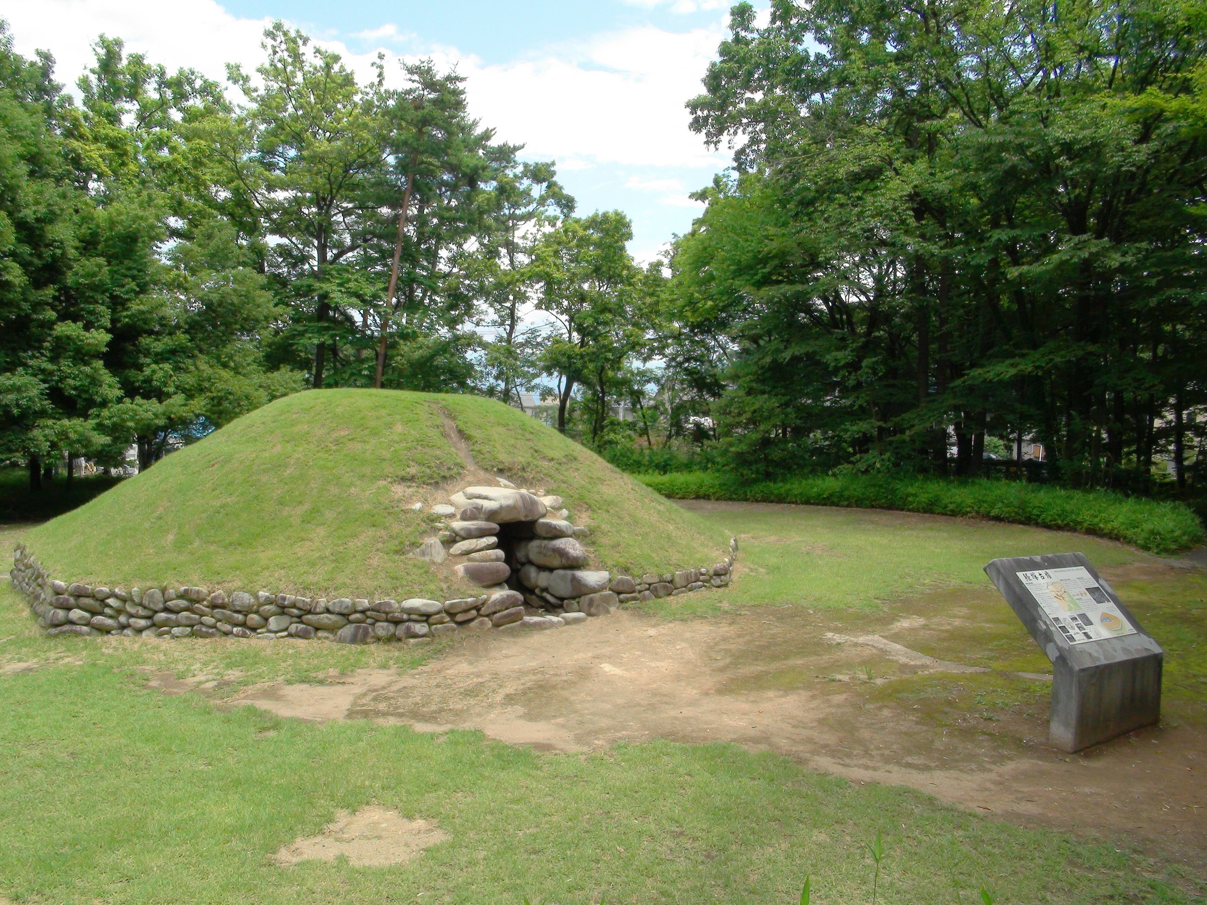 Kyozuka-kofun Old tomb at Fuefuki-city